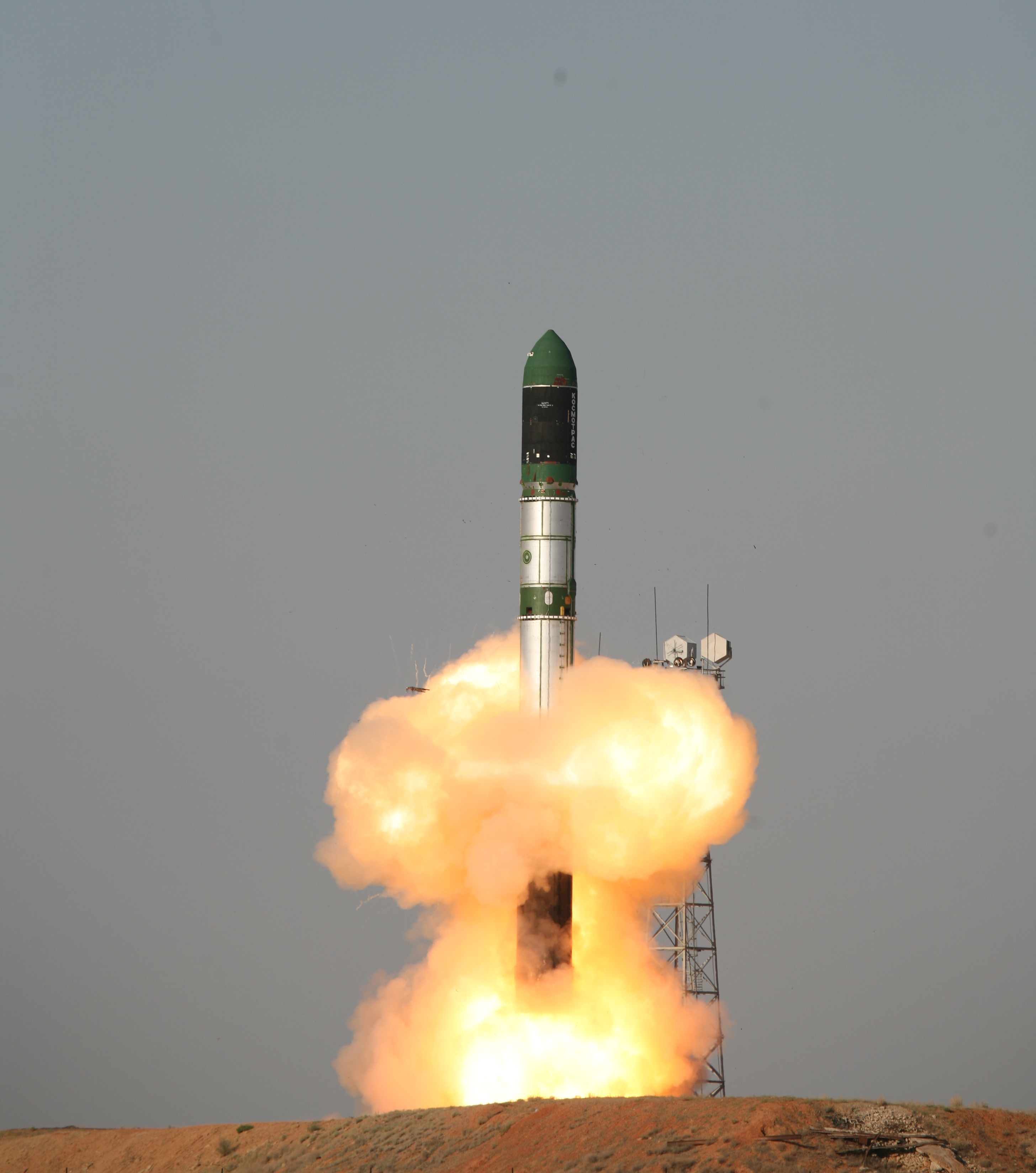 Germany's second Earth observation satellite, TanDEM-X, was launched successfully on 21 June 2010 at 04:14 Central European Summer Time (CEST, 08:14 local time) from the Baikonur Cosmodrome in Kazakhstan.